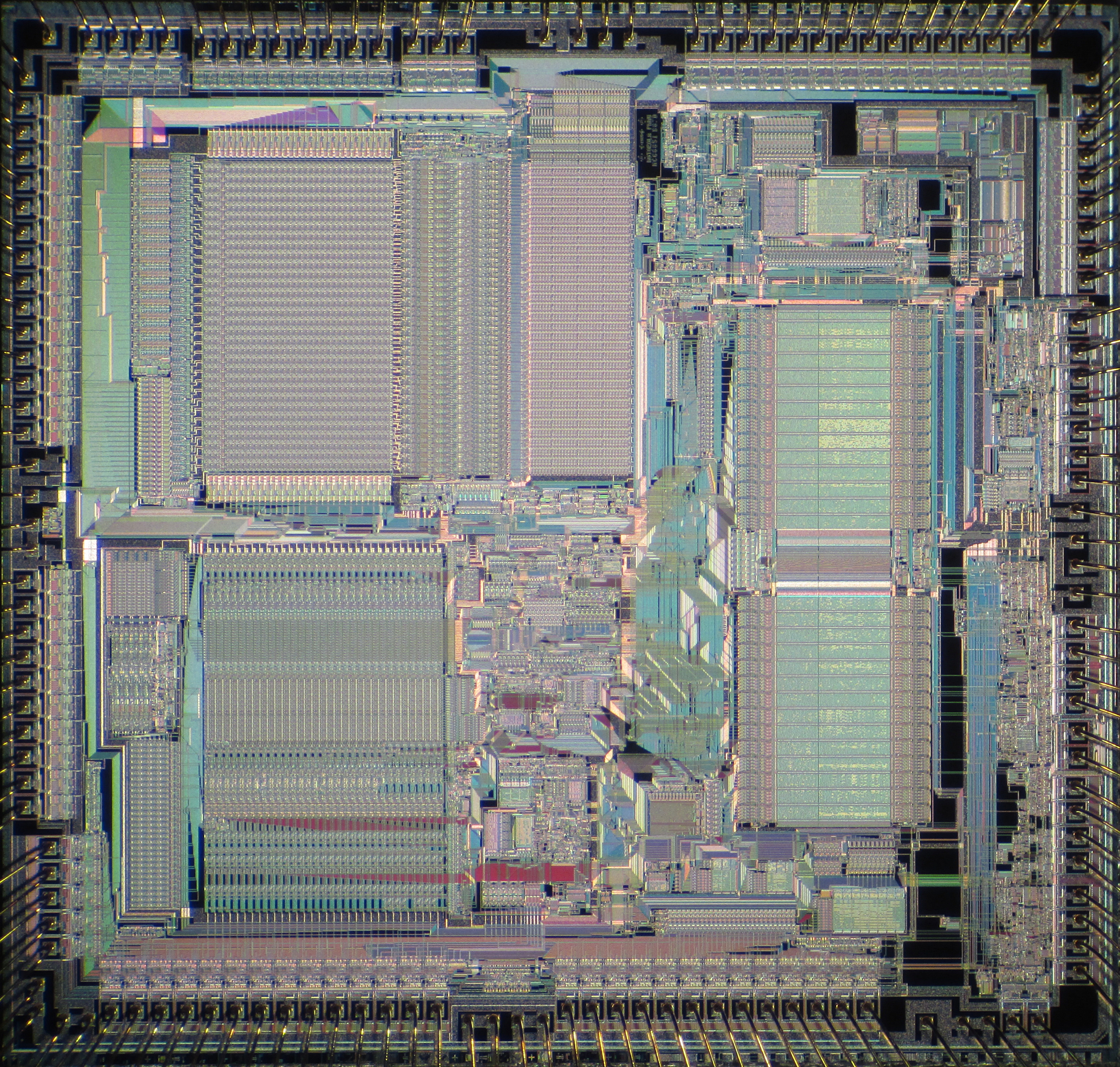 Die shot of Motorola 68851 paged memory management unit (XC68851RC16, 9B87D mask).